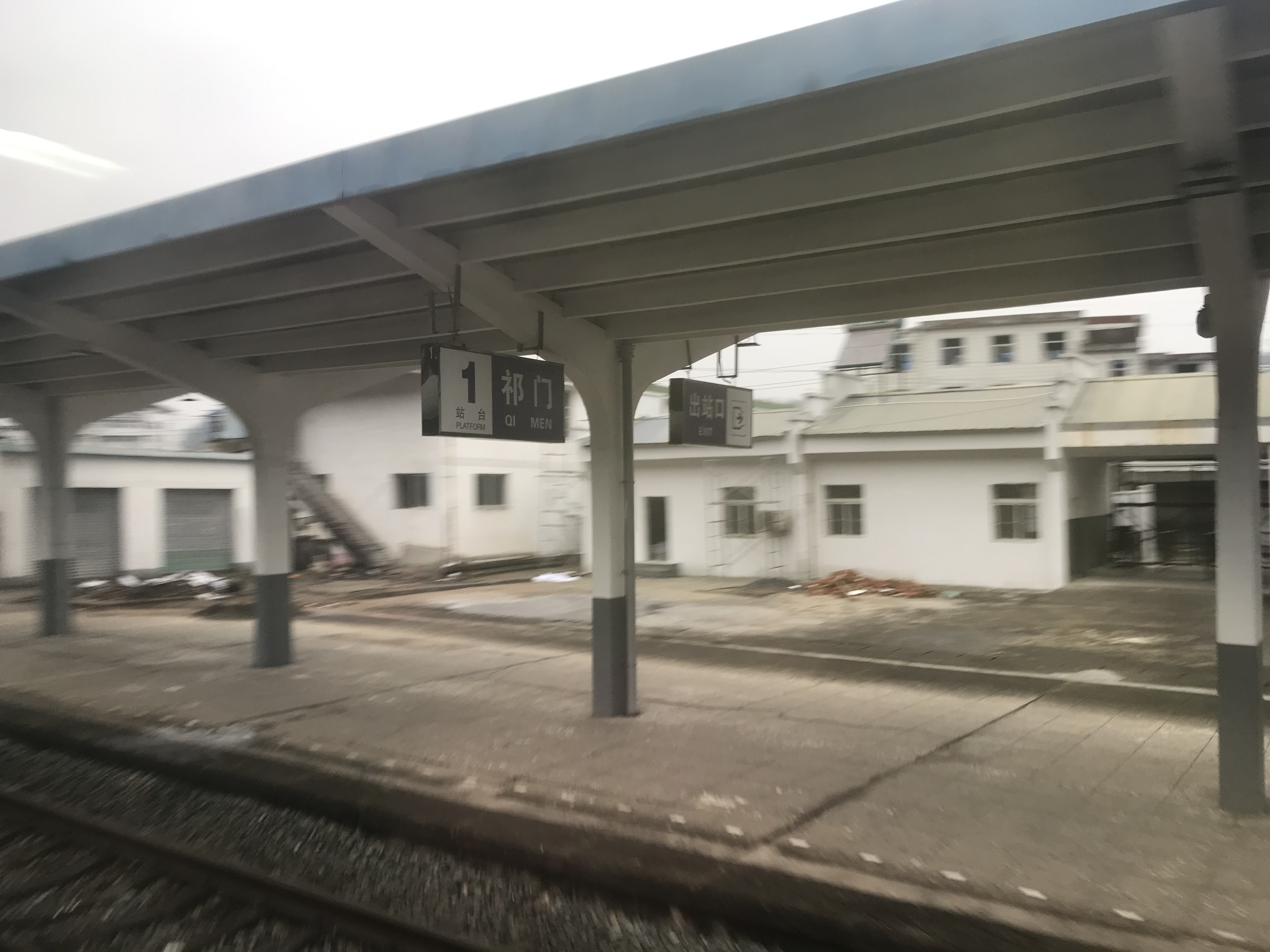 201901 Platform 1 of Qimen Station